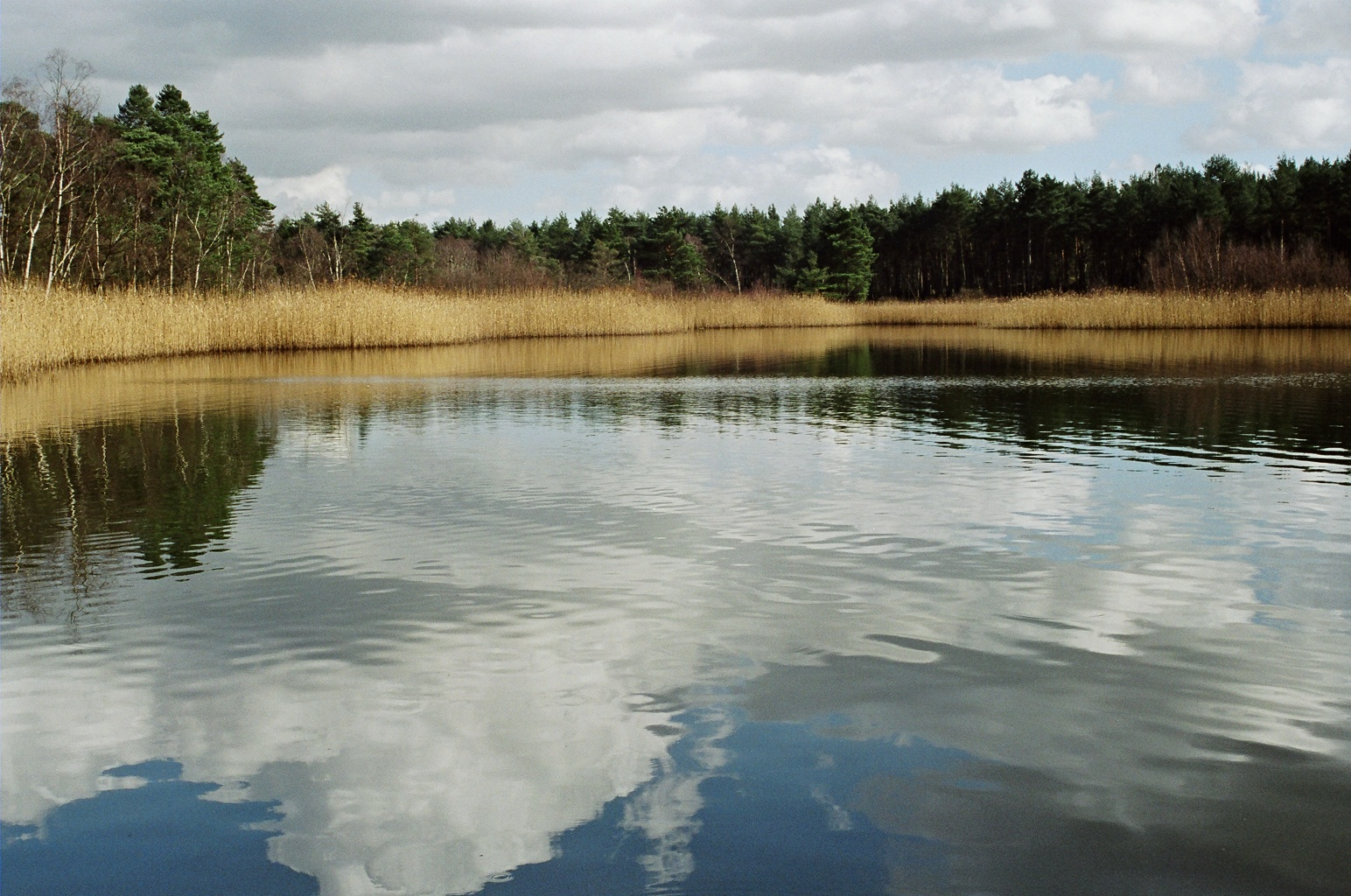 Black pond located near Esher, Surrey, UK